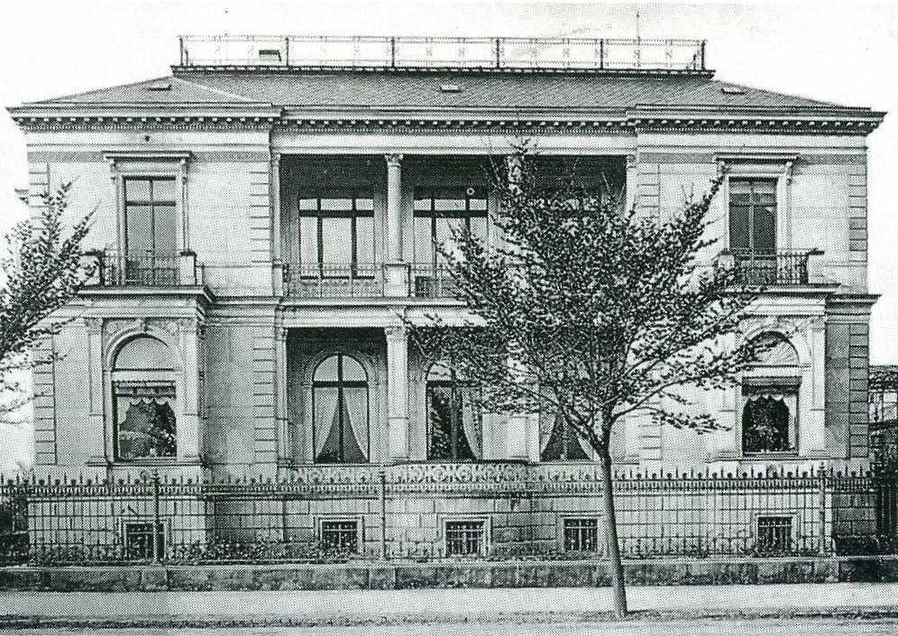 Dresden Haus Parkstraße 9. Ansicht der Straßenseite. Aufnahme um 1875